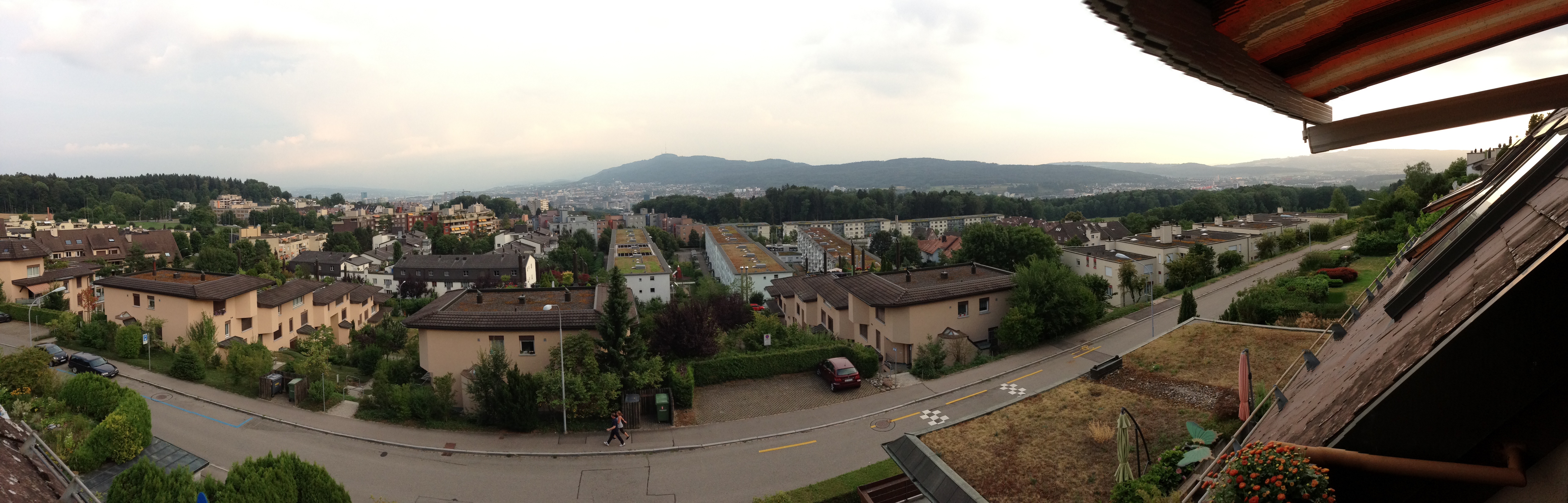 A view south from Hongg quarter to Zurich